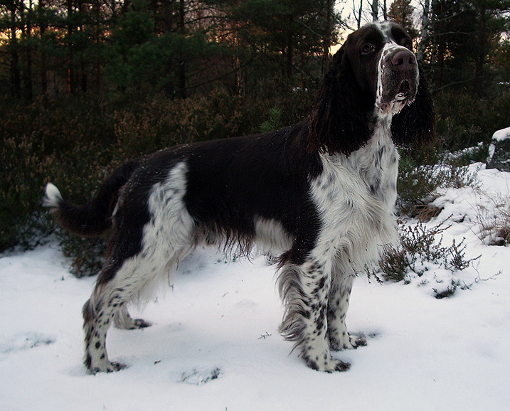 Photograph taken by user Galleytrotter and free for use on Wikipedia. To be used for english springer spaniel article in the Swedish version of Wikipedia. Shows a young male springer standing in a snowy forest.